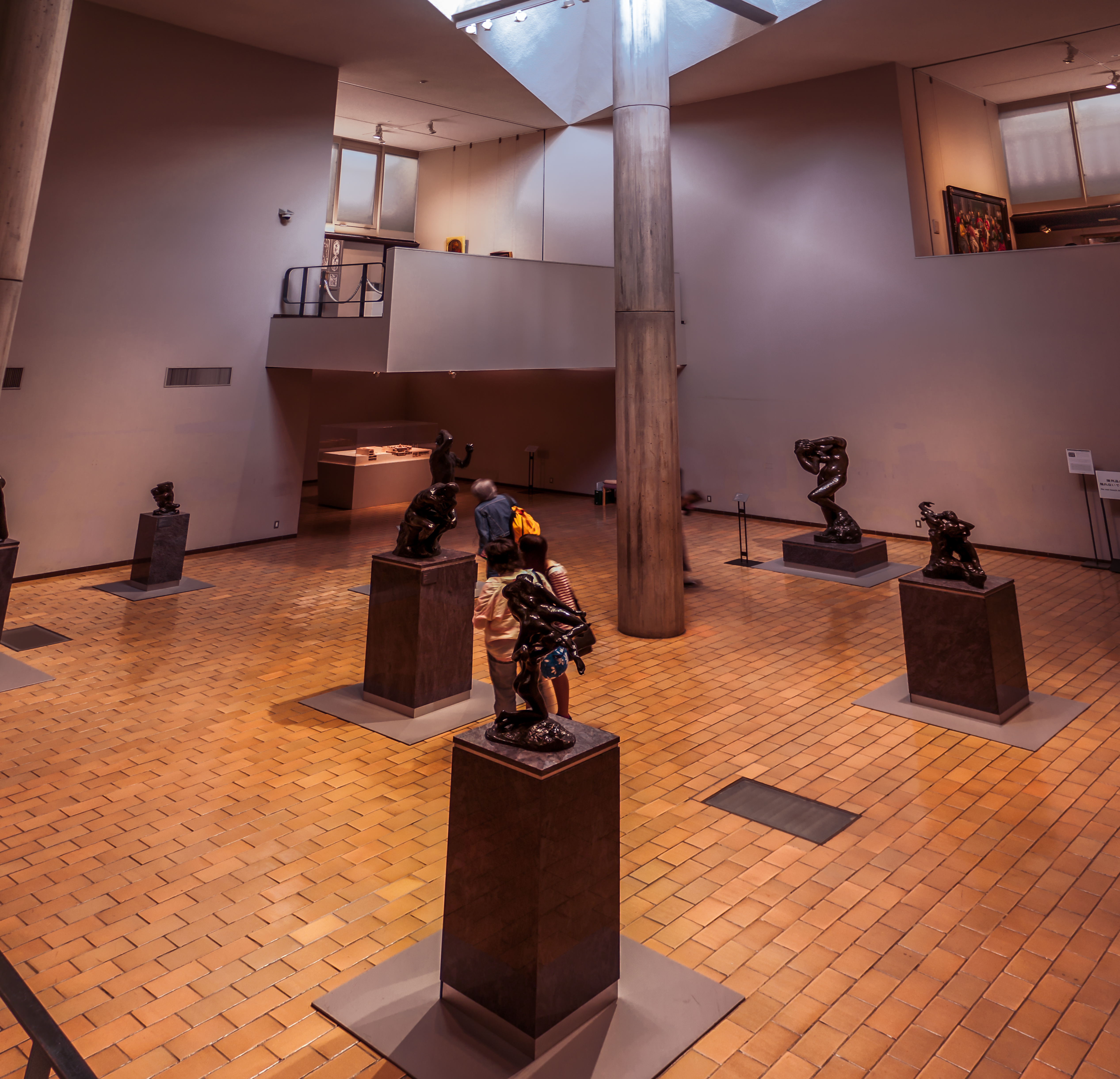 National Museum of Western Art